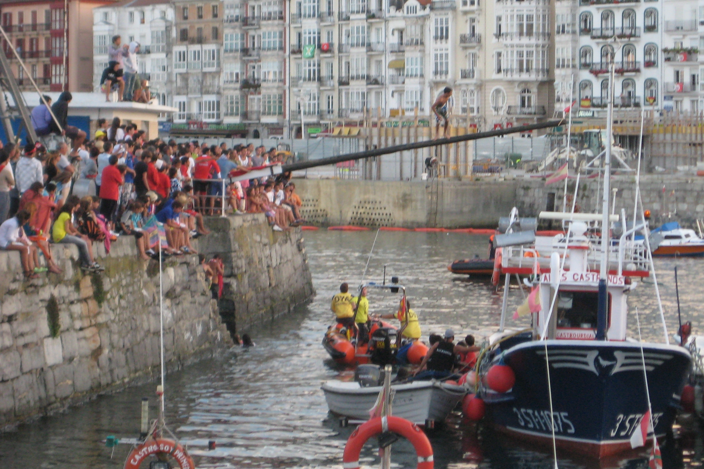 Greasy cockaigne pole, at the harbour of Castro-Urdiales, Cantabria, Spain.